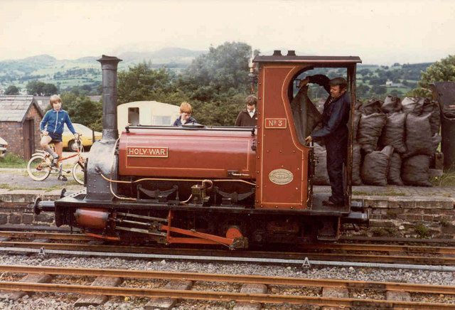 Bala Lake Railway - "Holy War" at Llanuwchllyn. One of the "Great Little Trains of Wales," the narrow gauge engine "Holy War" is seen at Llanuwchllyn Station.